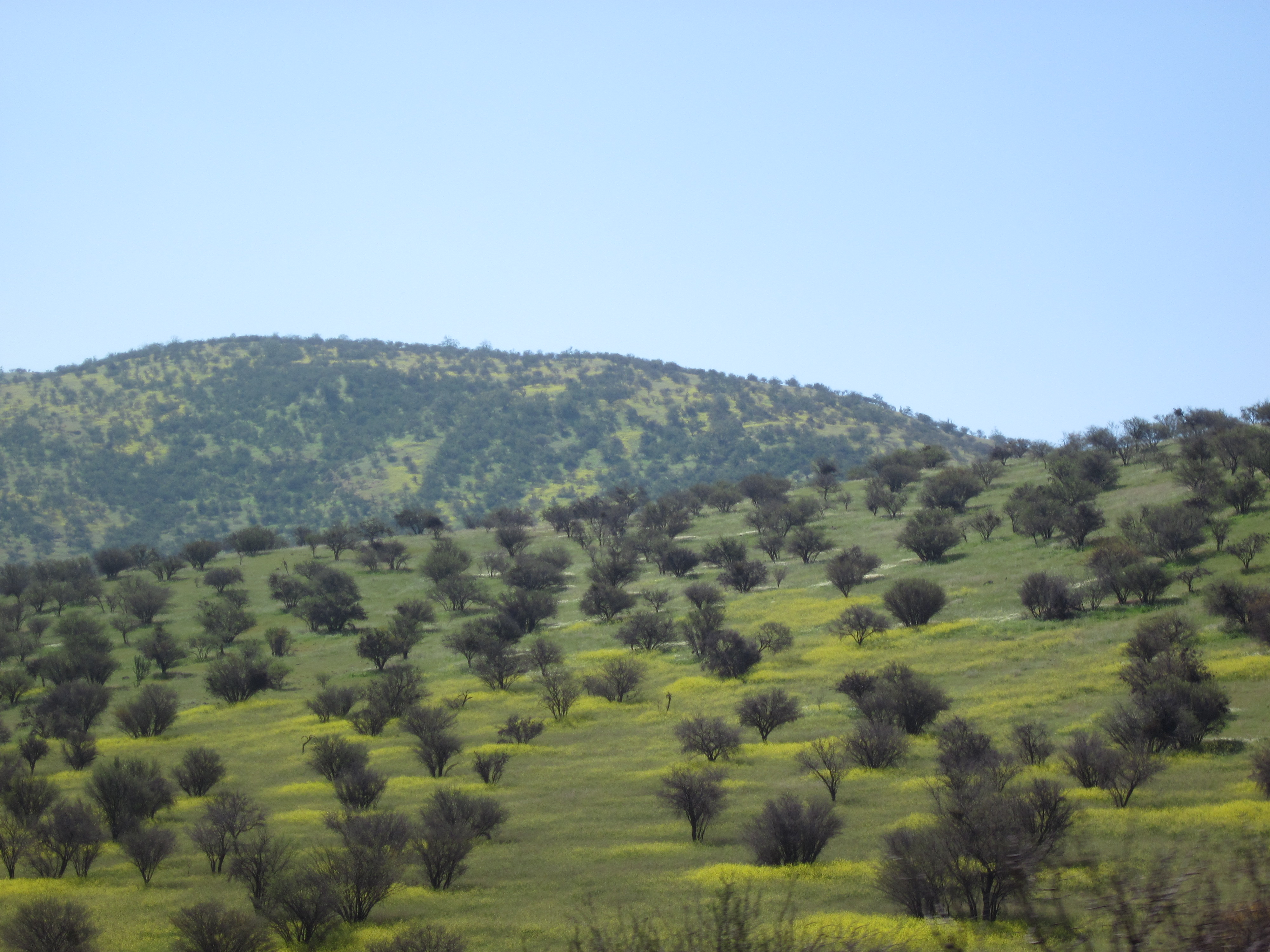 Chilean Matorral a few kilometres north of Santiago. Photo taken in October 2012.